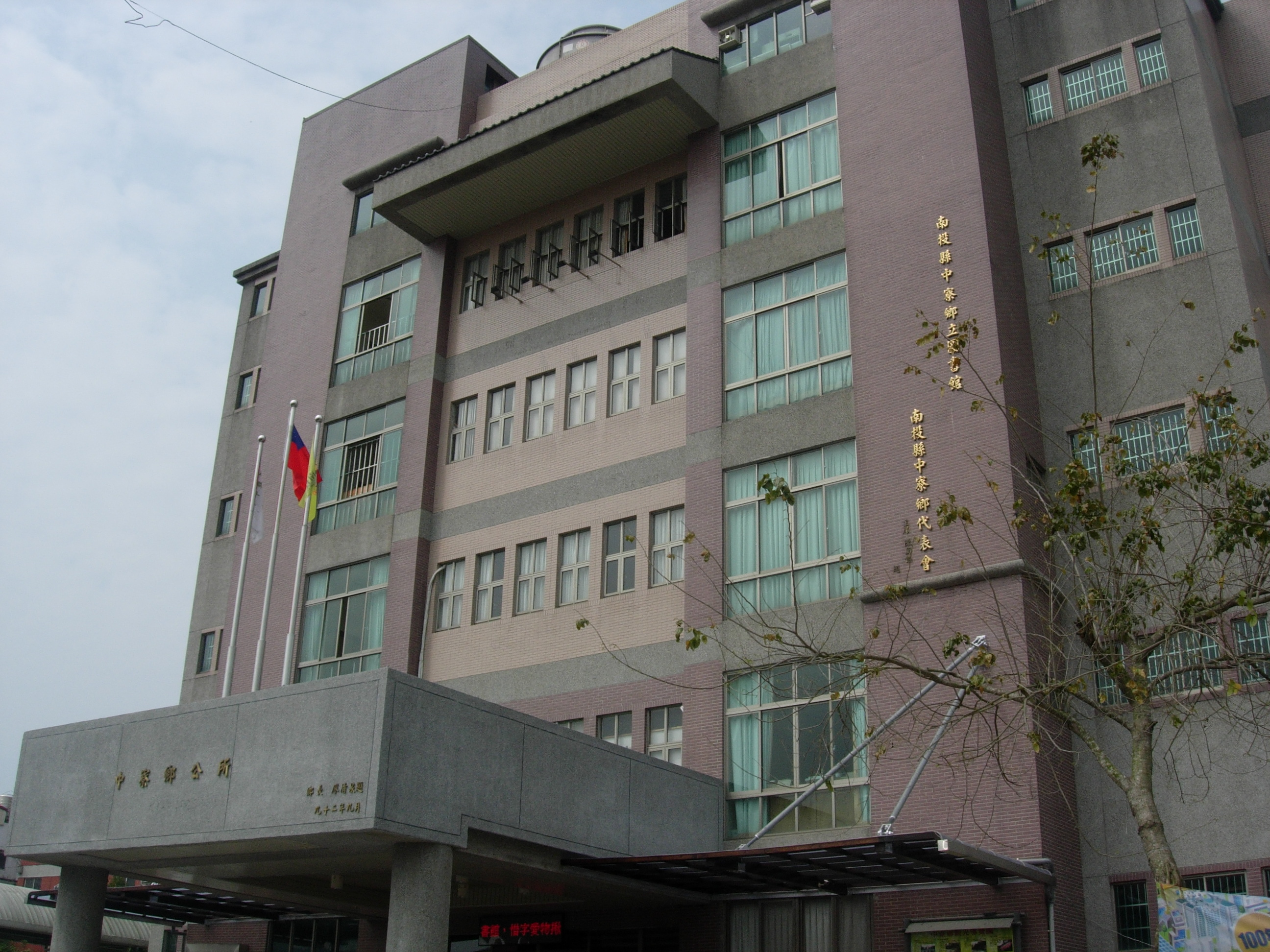 Jhongliao Township Office and Township Council, Nantou County.中文（台灣）: 南投縣中寮鄉公所與中寮鄉民代表會大樓，地址：南投縣中寮鄉永平村永平路270號。